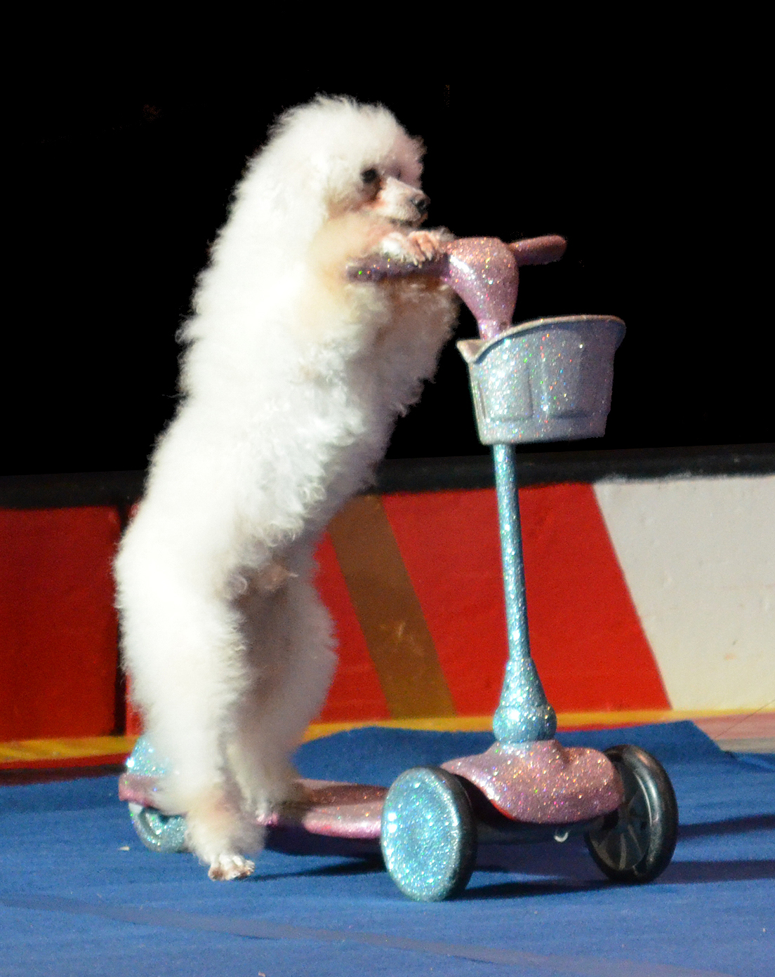 A dog prepares to ride the scooter during the Olate Dogs act at the Royal Hanneford Circus, at the Westchester County Civic Center in Westchester, New York, February 16, 2013.